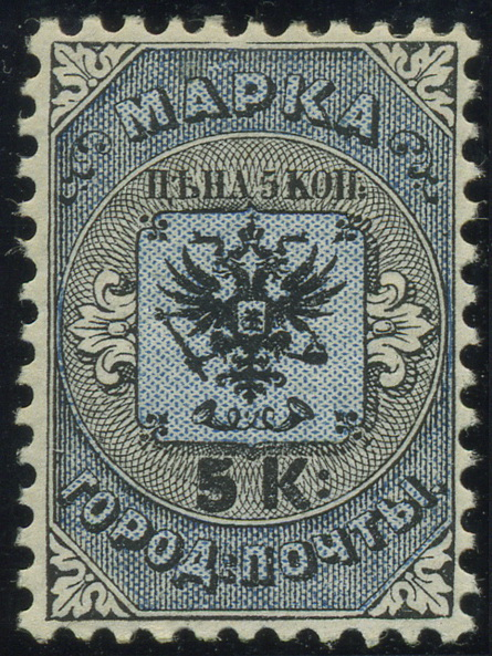 Russian Empire, 1863, City local post stamp, 5 kopecks.